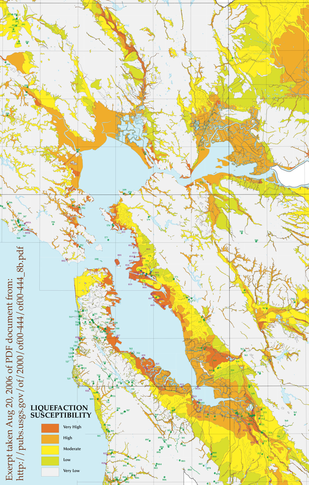 Excerpt from USGS site, PDF Map Exerpt by User:Leonard G.